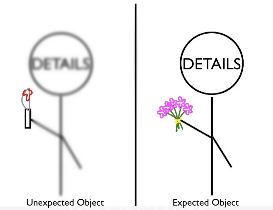 This drawing depicts the weapon focus effect. Two stick figures are shown with the word "Details" written across their faces. One is holding a knife. This is a depiction of an "Unexpected Object," therefore, due to the weapon focus effect, that stick figure and its "Details" are blurred. The other figure is holding a bouquet of flowers. This is a depiction of an "Expected Object," therefore this stick figure and its "Details" are not blurred.